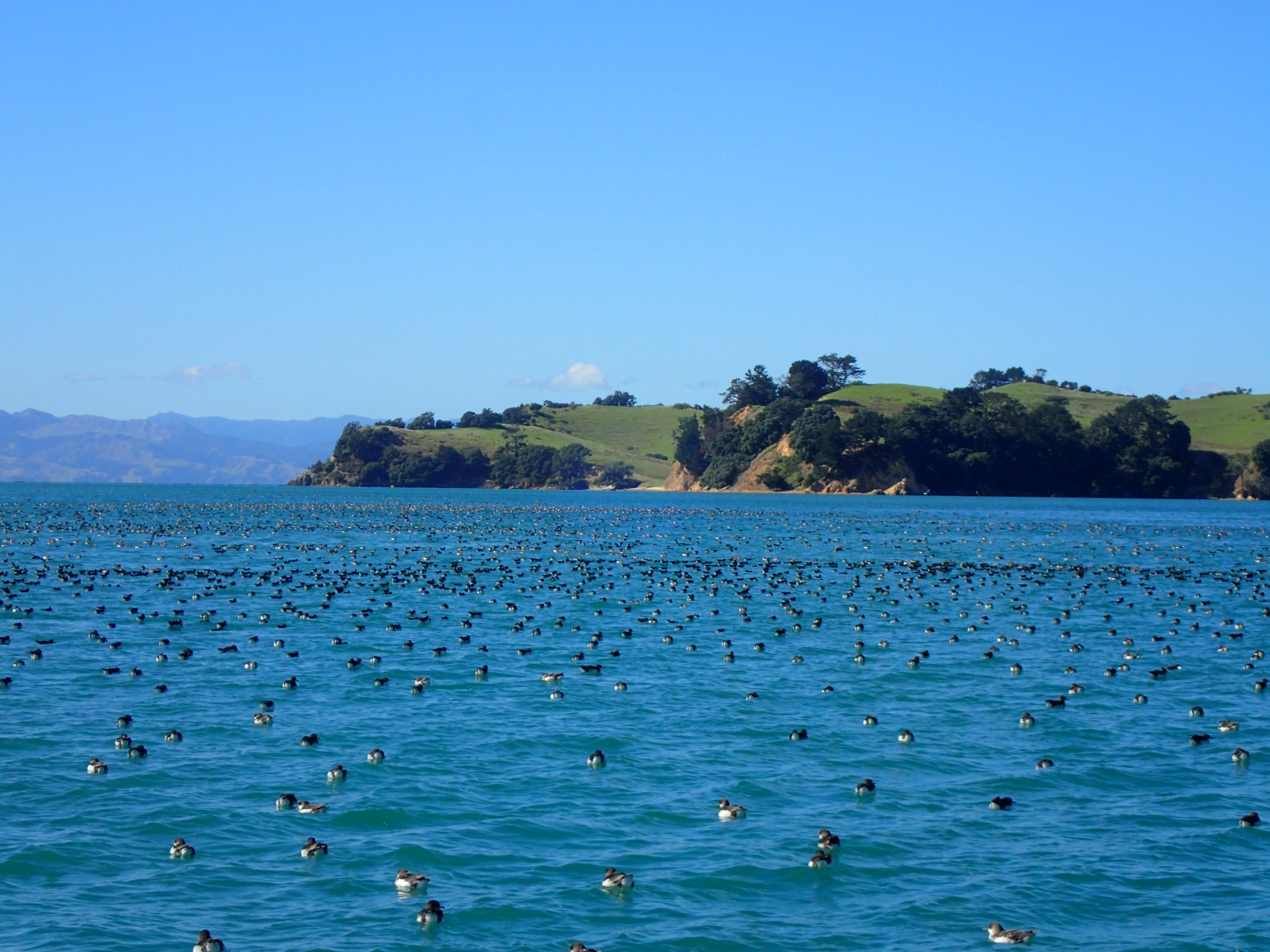 Fluttering Shearwaters, waiting for the next fishing excursion North Of Ponui Island, Hauraki Gulf, New Zealand / Aotearoa